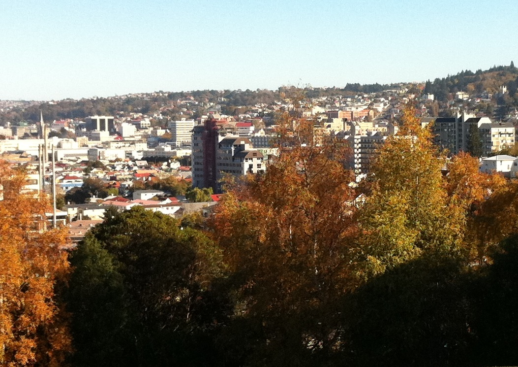 Dunedin skyline view over part of the University of Otago campus, with the CBD in the distance.